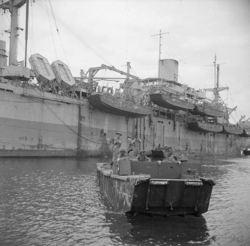 Landing craft leave HMS ROCKSAND for the island of Nancowry, the first step of the British occupation of the Nicobar Islands.